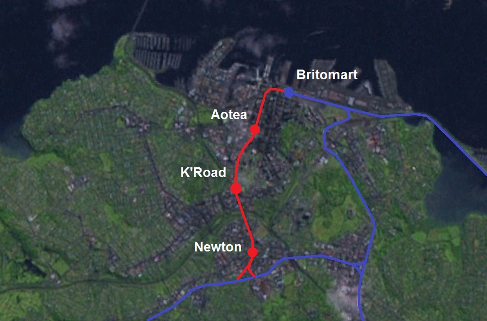 The indicative route and three proposed new station of the CBD Rail Link in Auckland, New Zealand. Based on Figure 1 of the Executive Summary of the 2010 Business Case for the CBD Rail Link.